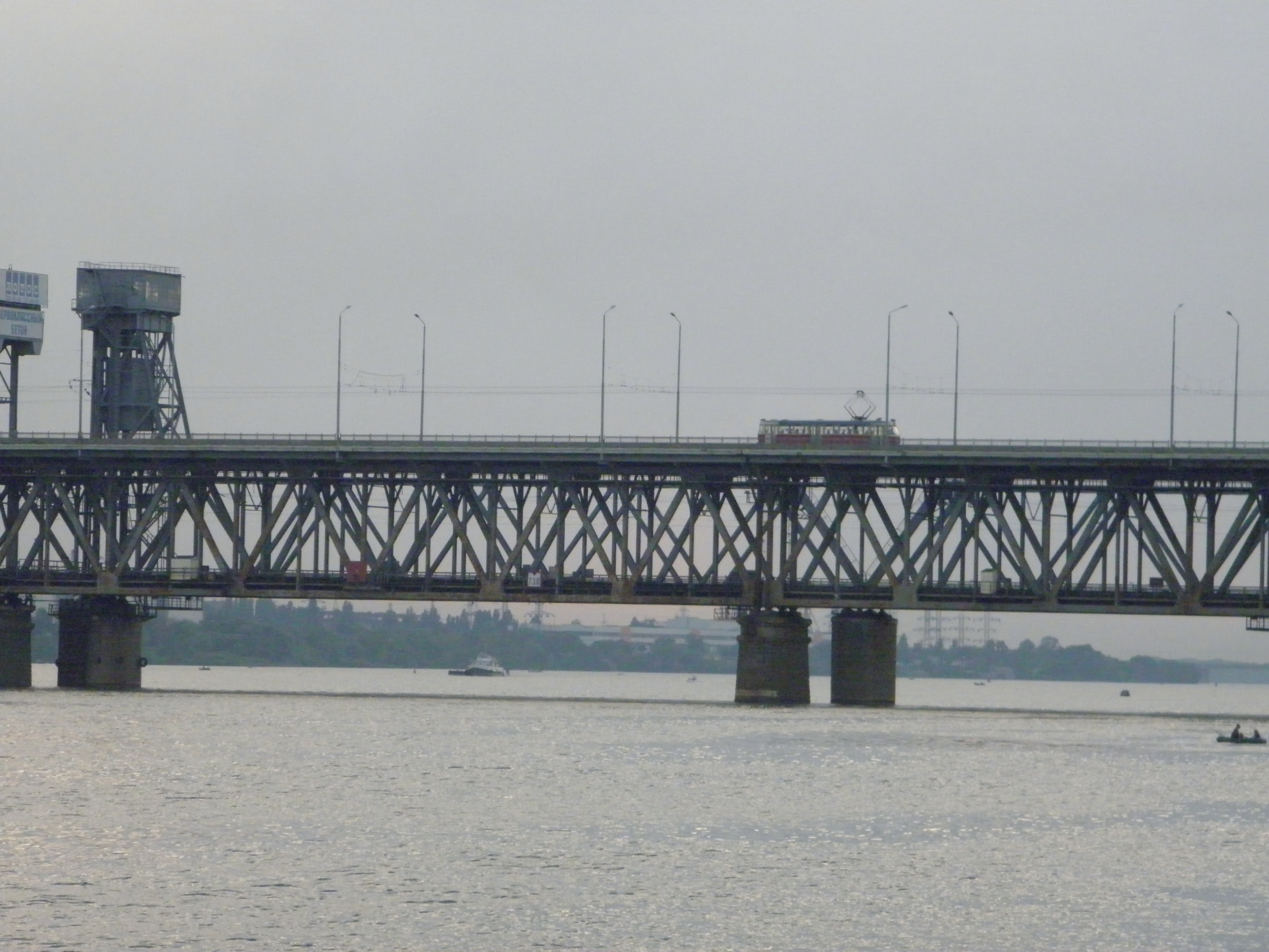 The Amur Bridge, over the Dnieper River in Dnipropetrovsk, Ukraine, is really two separate vertical-lift bridges side by side: A double-deck bridge (closest to the camera here) with road traffic on the top deck (in this photo, a tram is crossing it) and railway traffic on the lower deck, and a separate single-level railway bridge (in the background of this photo).